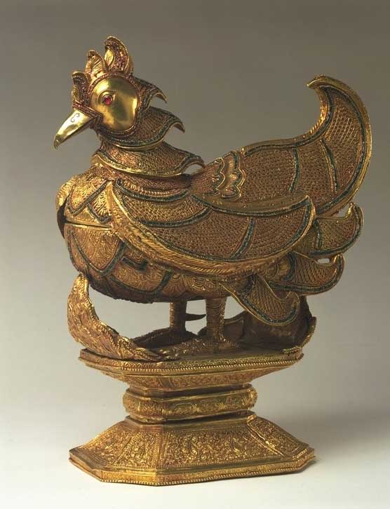 Betel container, 19th century V&A Museum no. IS.246&A-1964 Techniques - Filigree work in gold on a gold ground, outlined with bands of rubies and imitation emeralds, with some embossing; eyes of rubies (one now missing) Place - Mandalay, Burma Dimensions - Height 41.5 cm, Length 35.5 cm, Width 18 cm